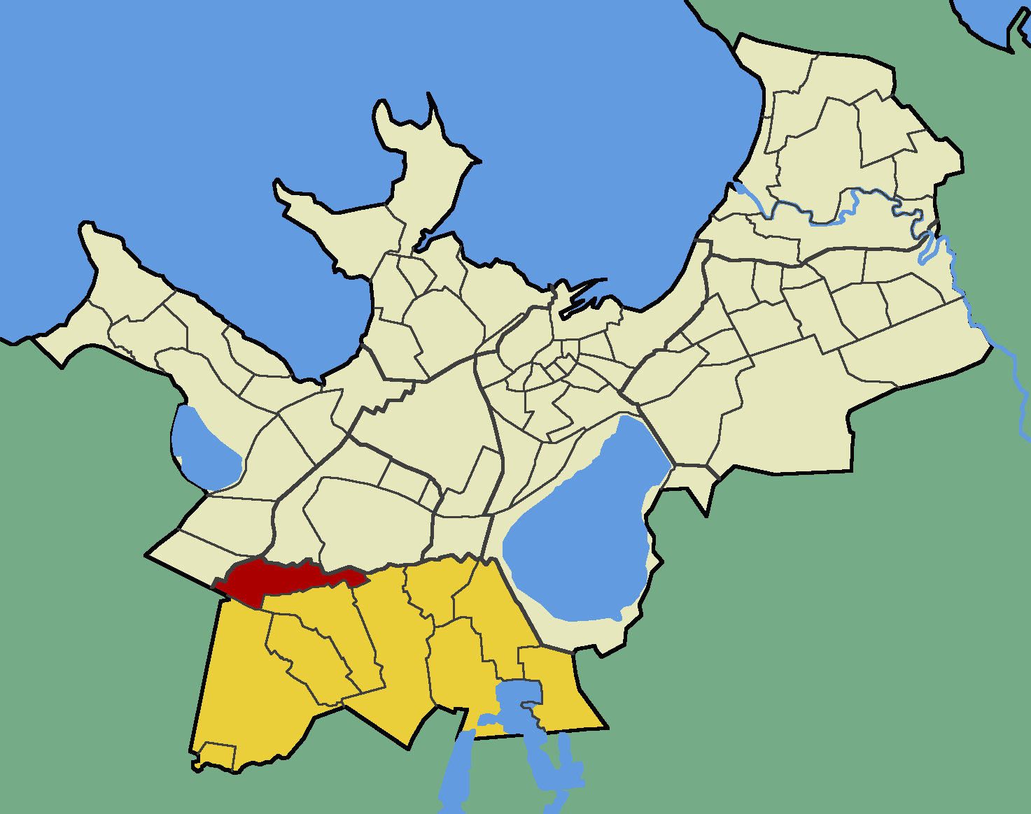 Map of Tallinn (Estonia) with borders of the quarters, Nõmme district and Vana-Mustamäe quarter emphasised